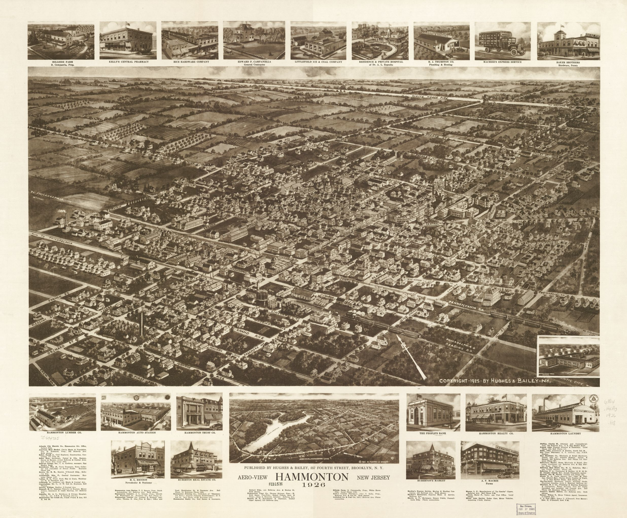 Aero view of Hammonton, New Jersey 1925 Call Number/Physical Location: G3814.H4A3 1926 .H8 Library of Congress Control Number: 75694725